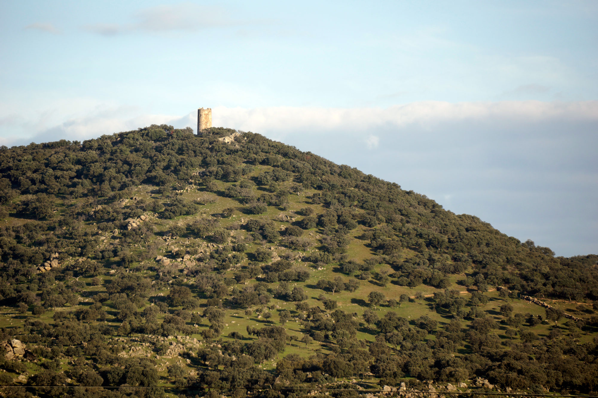 El Casar watchtower. 10 Century. Talavera de la Reina (Spain)